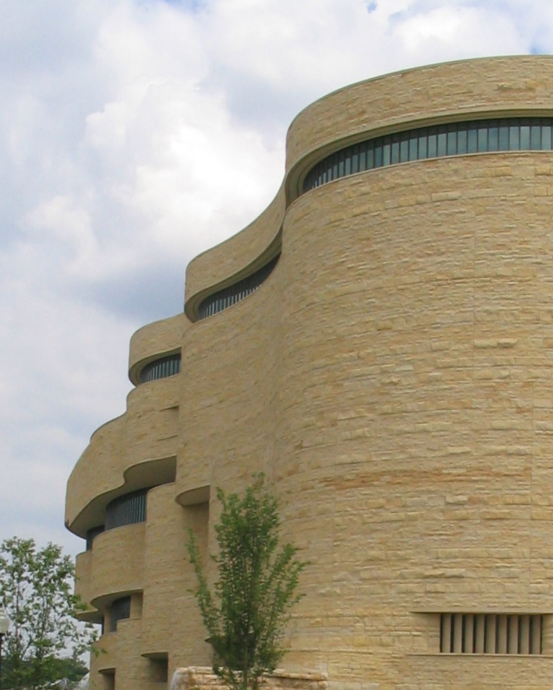 Exterior of the National Museum of the American Indian.